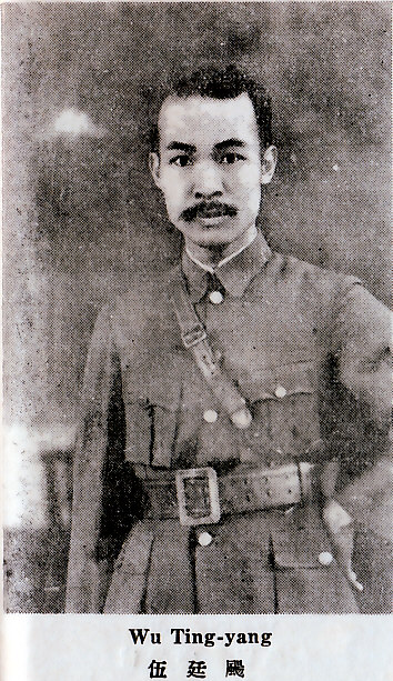 Wu Tingyang (born 1890)